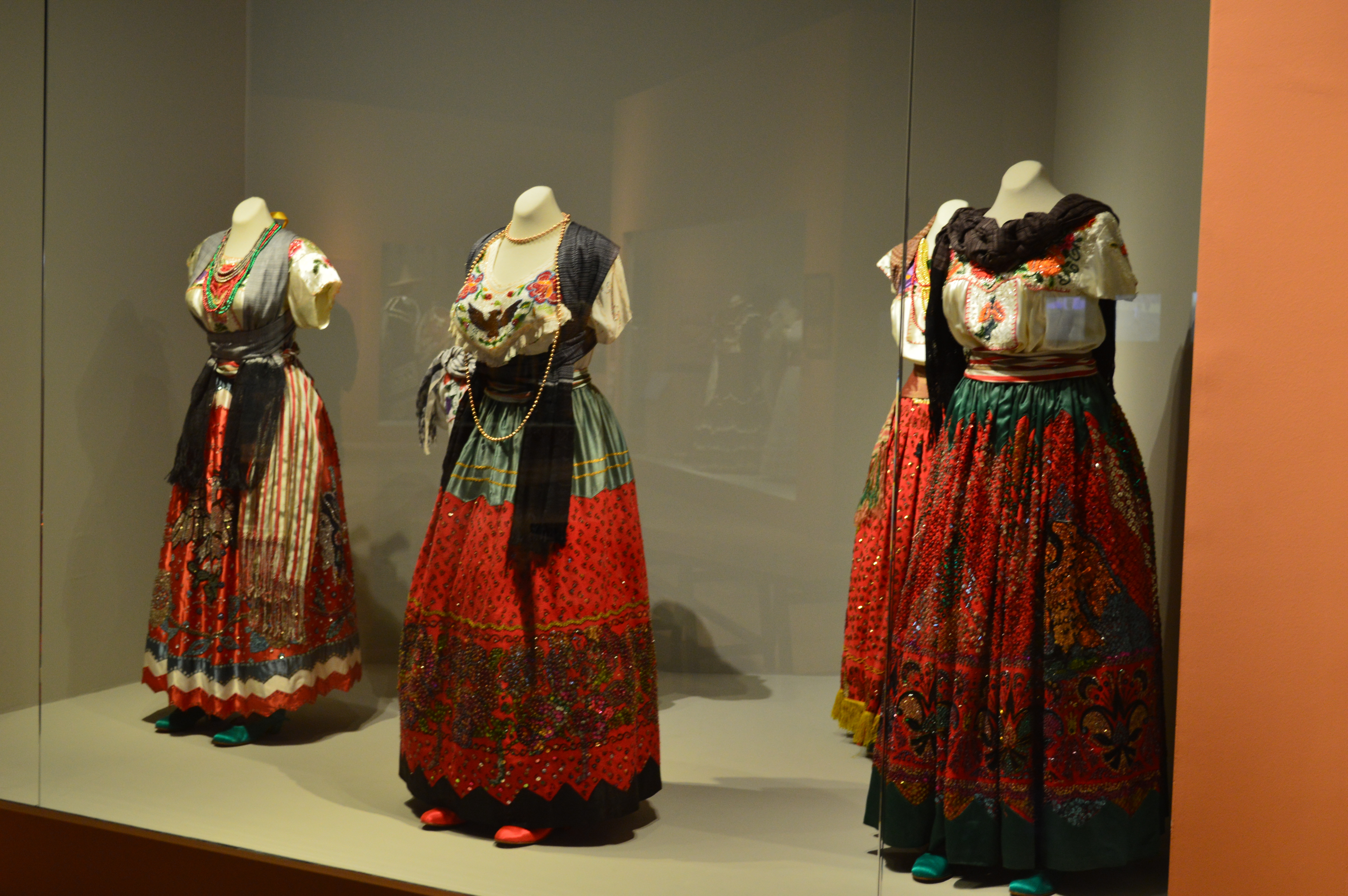 Mannequins with China Poblana outfits on display at the Museo del Noreste in Monterrey, Mexico